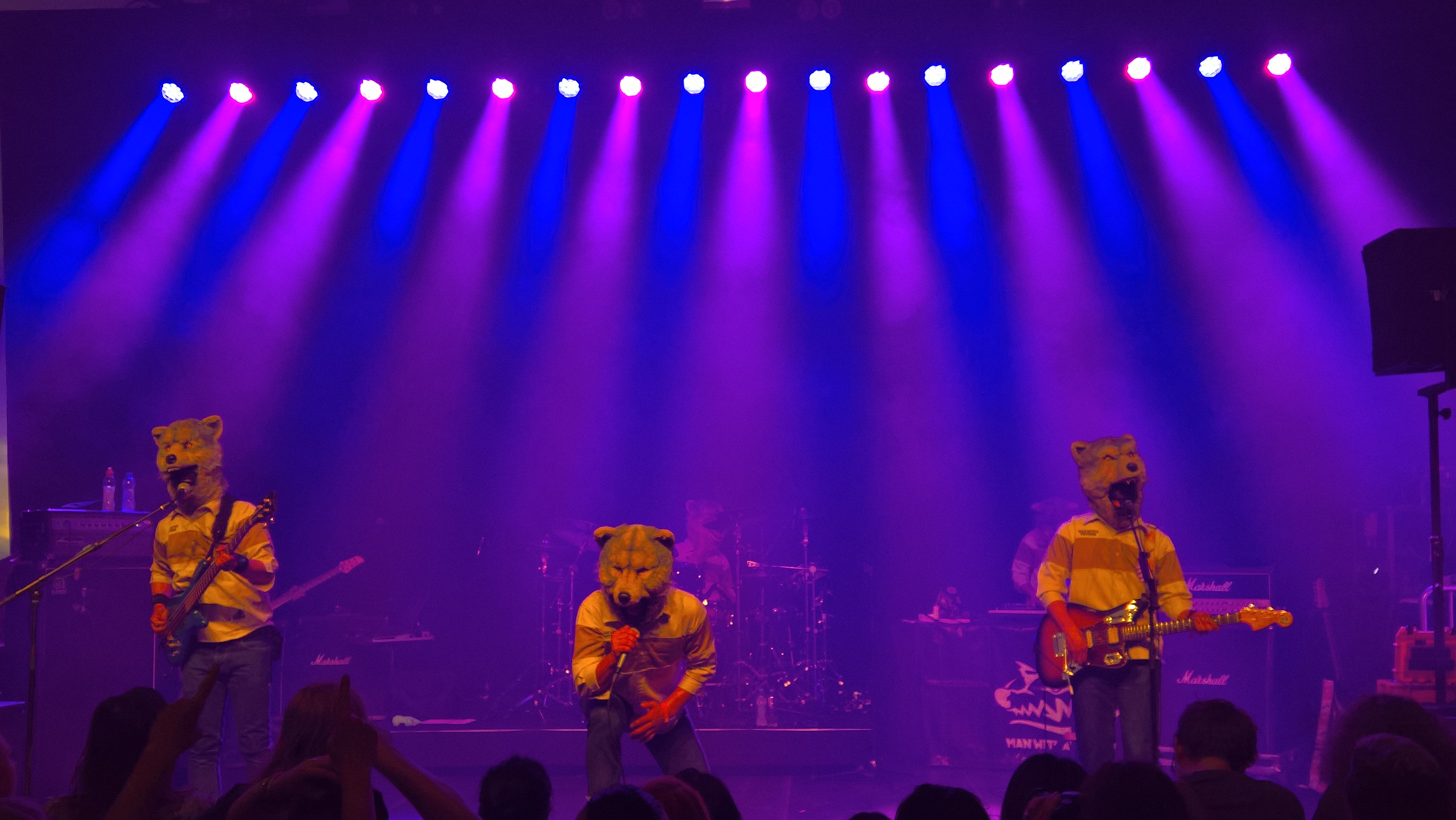 Man with a Mission performing @ Tuska Festival 2016.